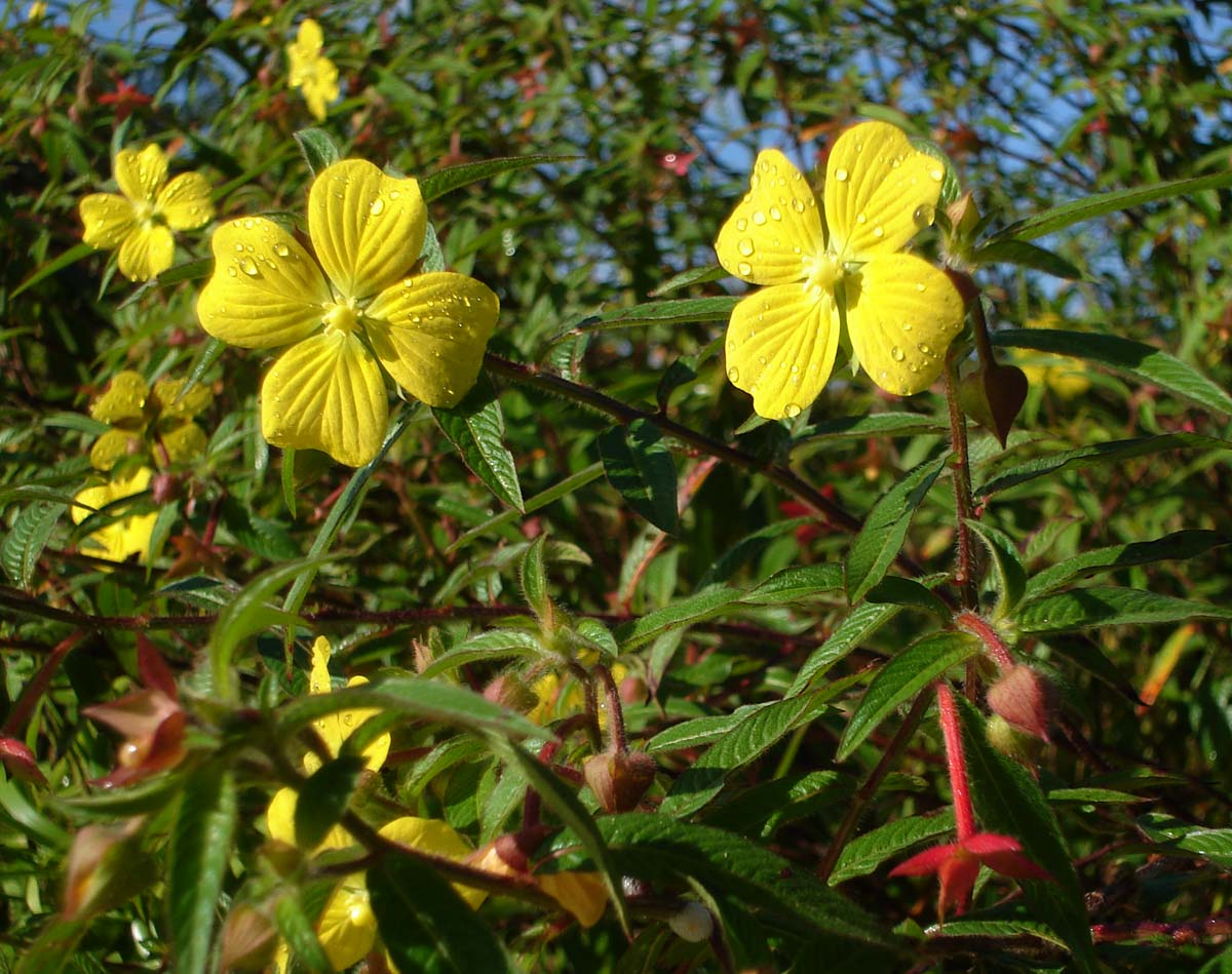 Ludwigia octovalvis, (loaano) in a Tongan swamp